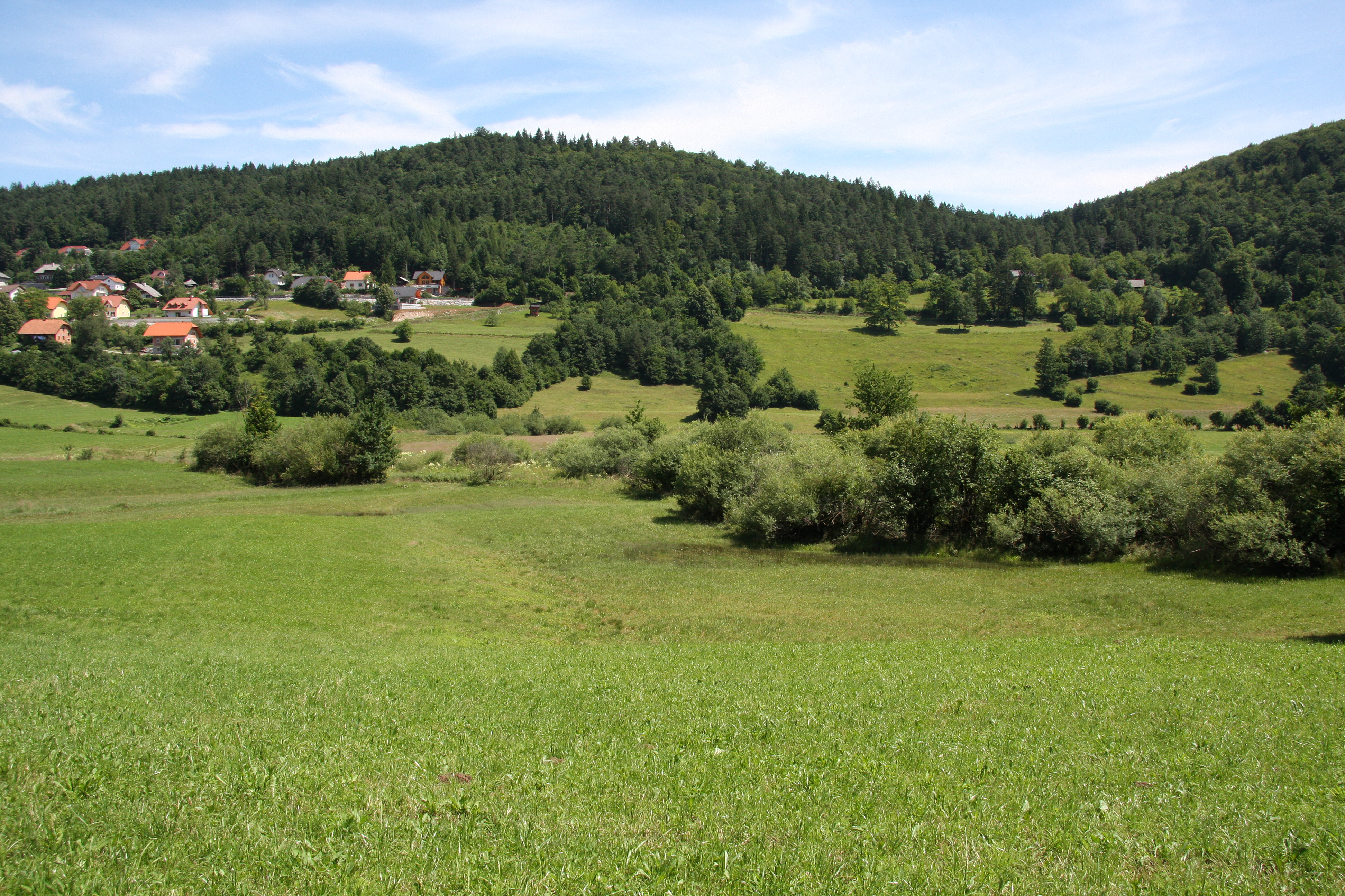 At the bottom of uvala Ponikve, similar to a small polje near the village Preserje, Brezovica municipality, Slovenia. Part of the village Preserje is on the left.